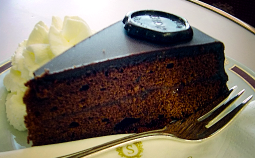 Cake (cropped and enchanced)